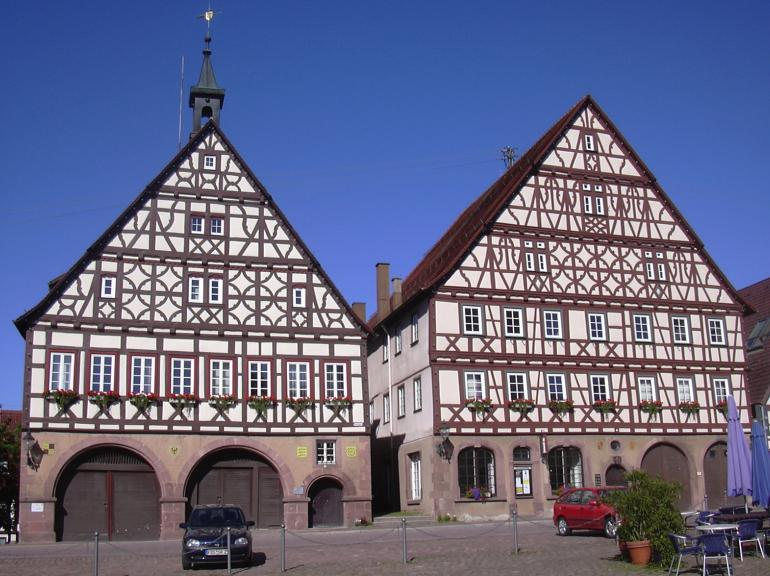 Town hall (left) and "Ochsen" (an inn, right) on the market square of Dornstetten, Germany